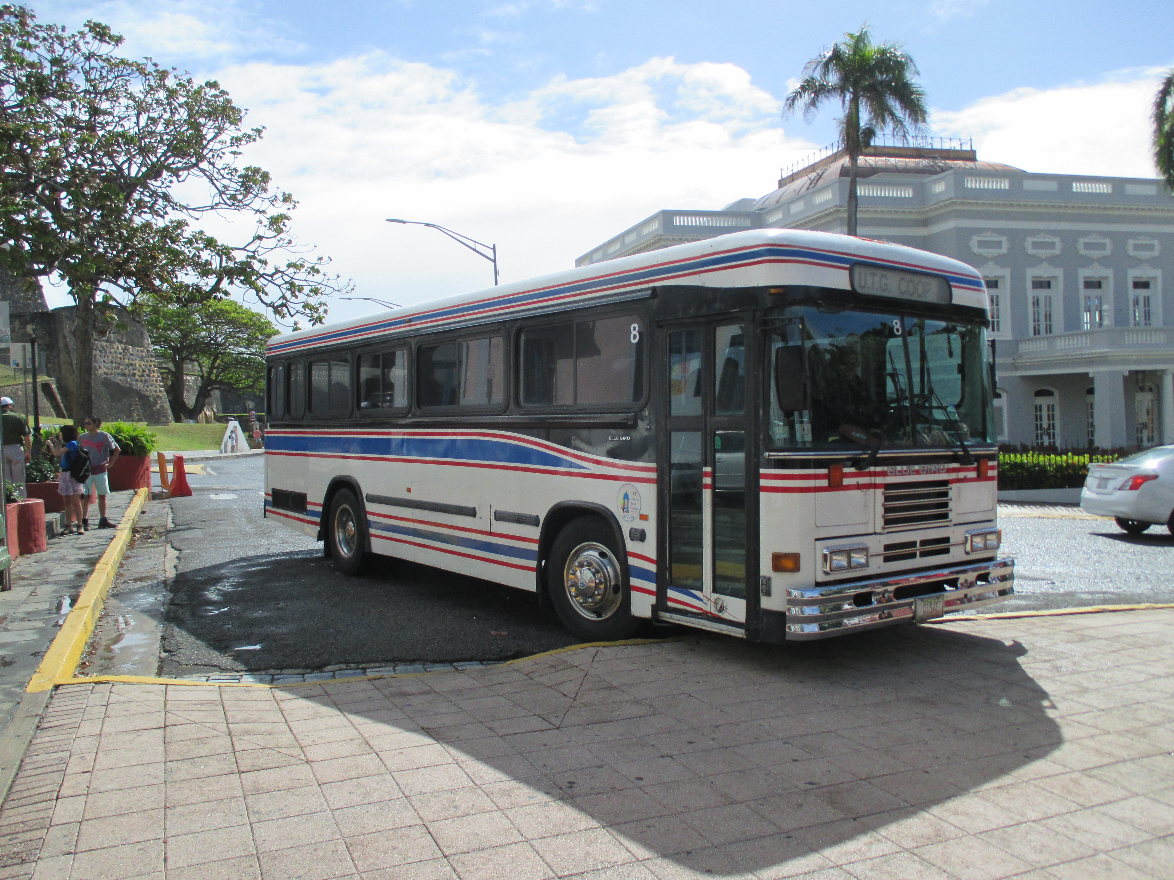 U.T.G. coop, bus line #8.